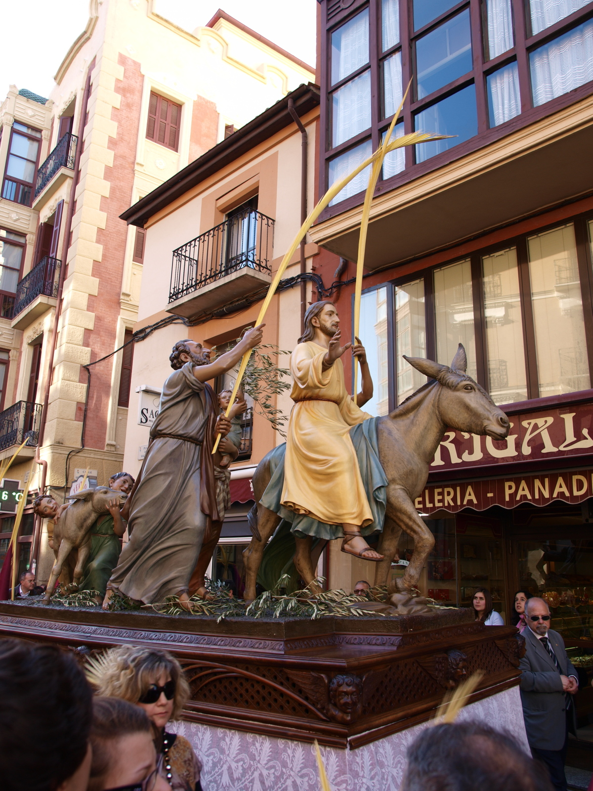 Procession of the religious brotherhood Real Cofradía de Jesús en su Entrada Triunfal en Jerusalén (La Borriquita), Zamora, Spain, Holy Week 2010